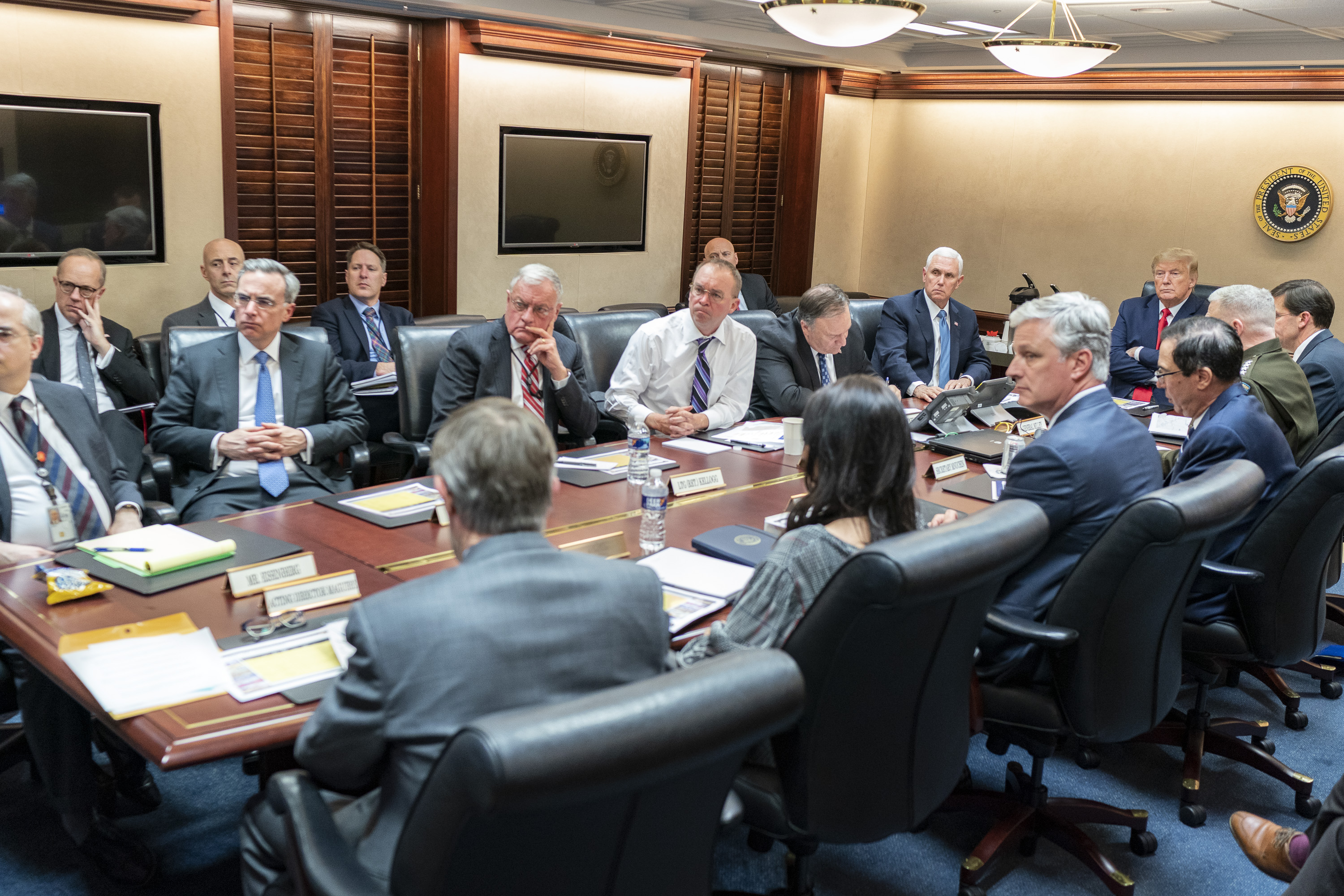 President Donald J. Trump, joined by Vice President Mike Pence, meets with senior White House advisors Tuesday evening, Jan. 7, 2020, in the Situation Room of the White House, on a further meeting about the Islamic Republic of Iran missile attacks on U.S. military facilities in Iraq. (Official White House Photo by Shealah Craighead)